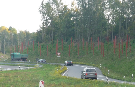 The "Park Motorway A42" at the intersection Castrop-Rauxel.